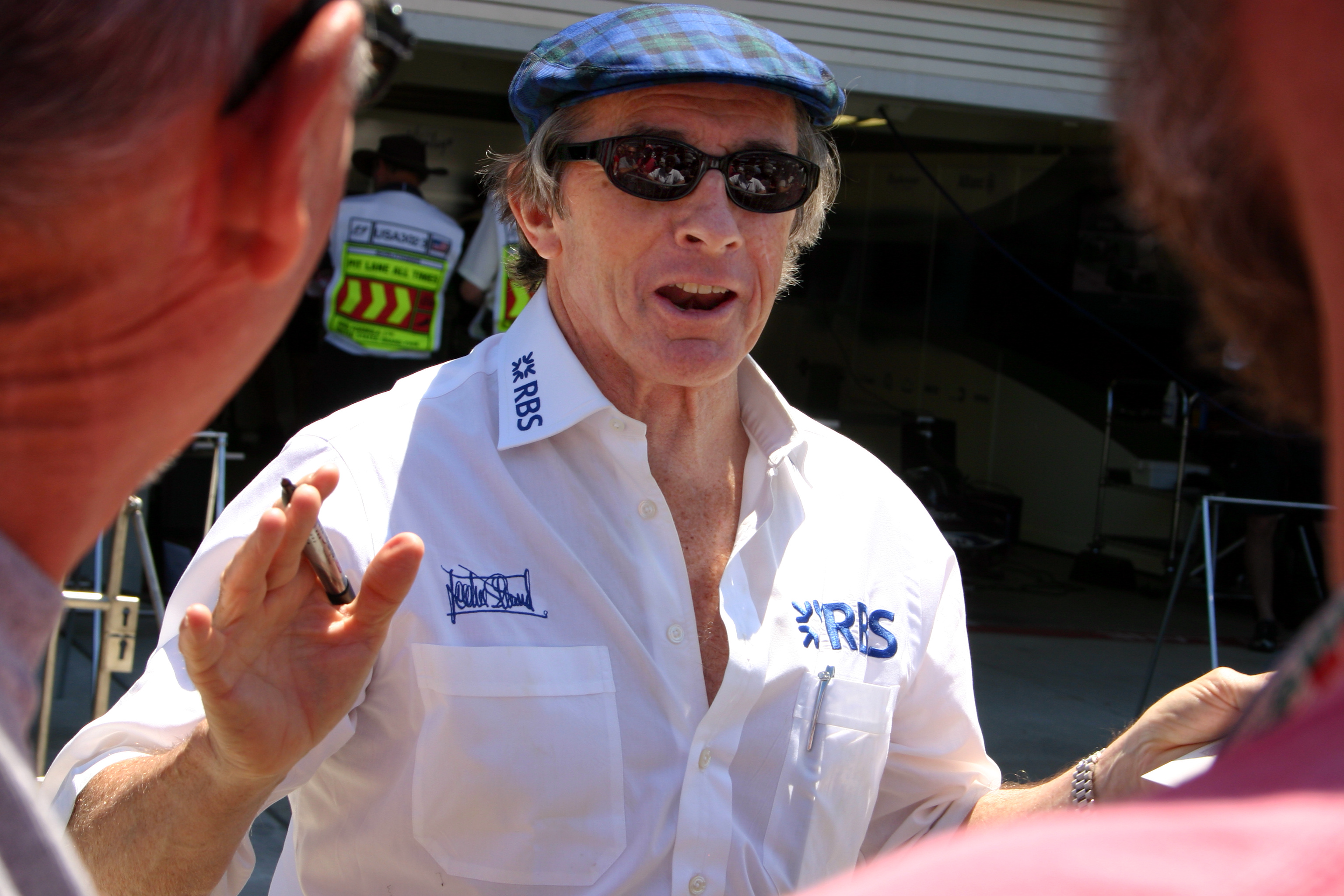 Jackie Stewart greets fans in the pit lane at the 2005 United States Grand Prix at Indianapolis June 18, 2005